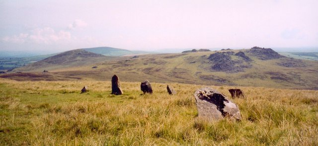 Bedd Arthur The 'grave' of King Arthur on the Preseli ridge. Tradition says that the legendary king was buried here.